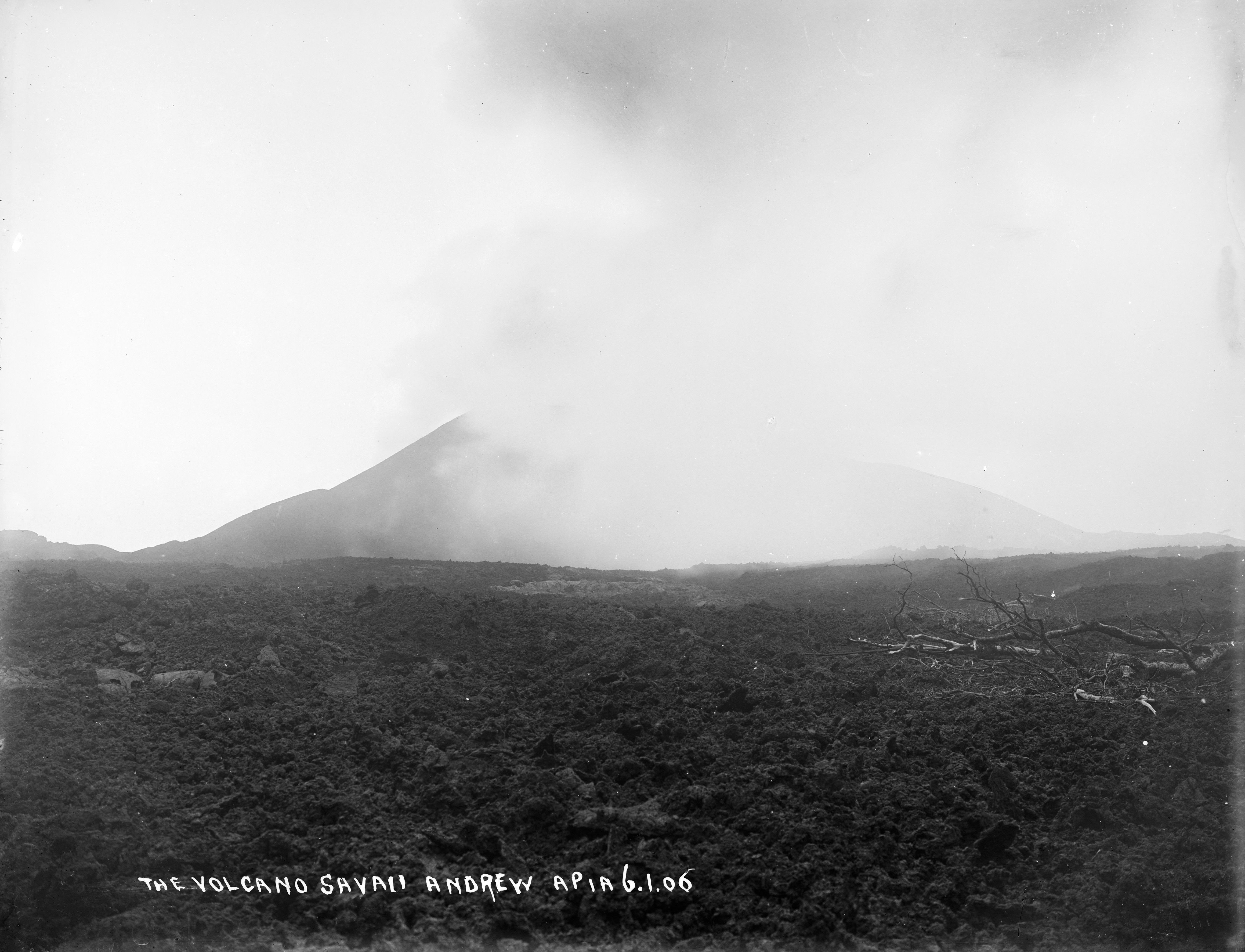 Active volcano on Savai'i island, Samoa 1906. Gagana Samoa: Mauga mu i Savai'i, 1906.